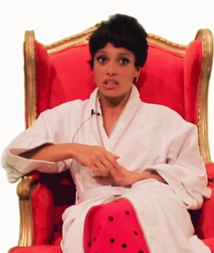 English model Adwoa Aboah on Big Sister Episode 2 - Edie Campell, rumours - LOVE Edie Campbell and the rest of the 17.5 girls discuss those malicious rumours...